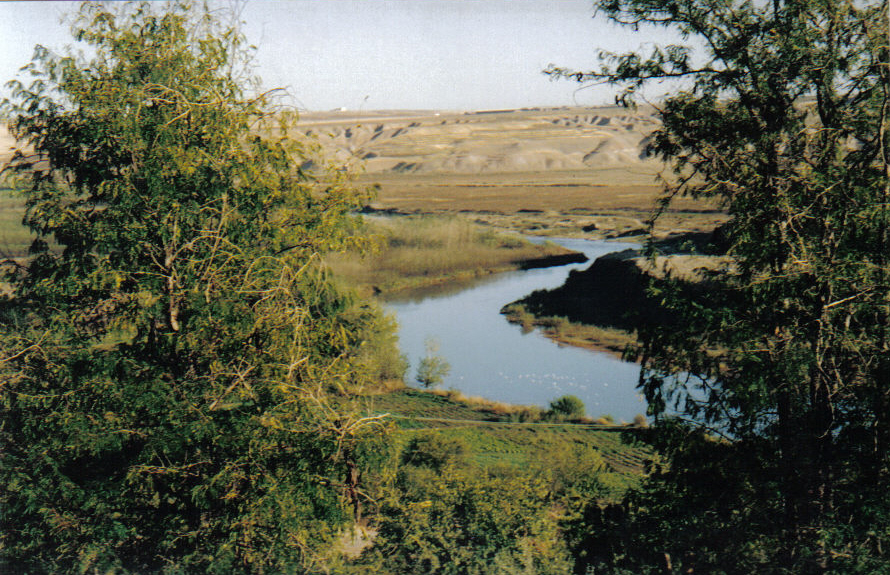 The river Tigris presents a bucolic pastoral scene outside Diyarbakır, Turkey. (C) Gerry Lynch, 2003.